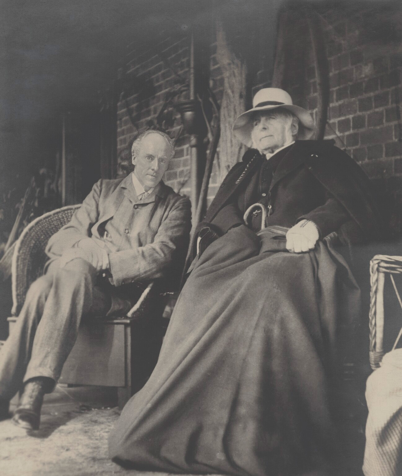 Francis Galton, aged 87, on the stoep at Fox Holm, Cobham, with his biographer.[1]